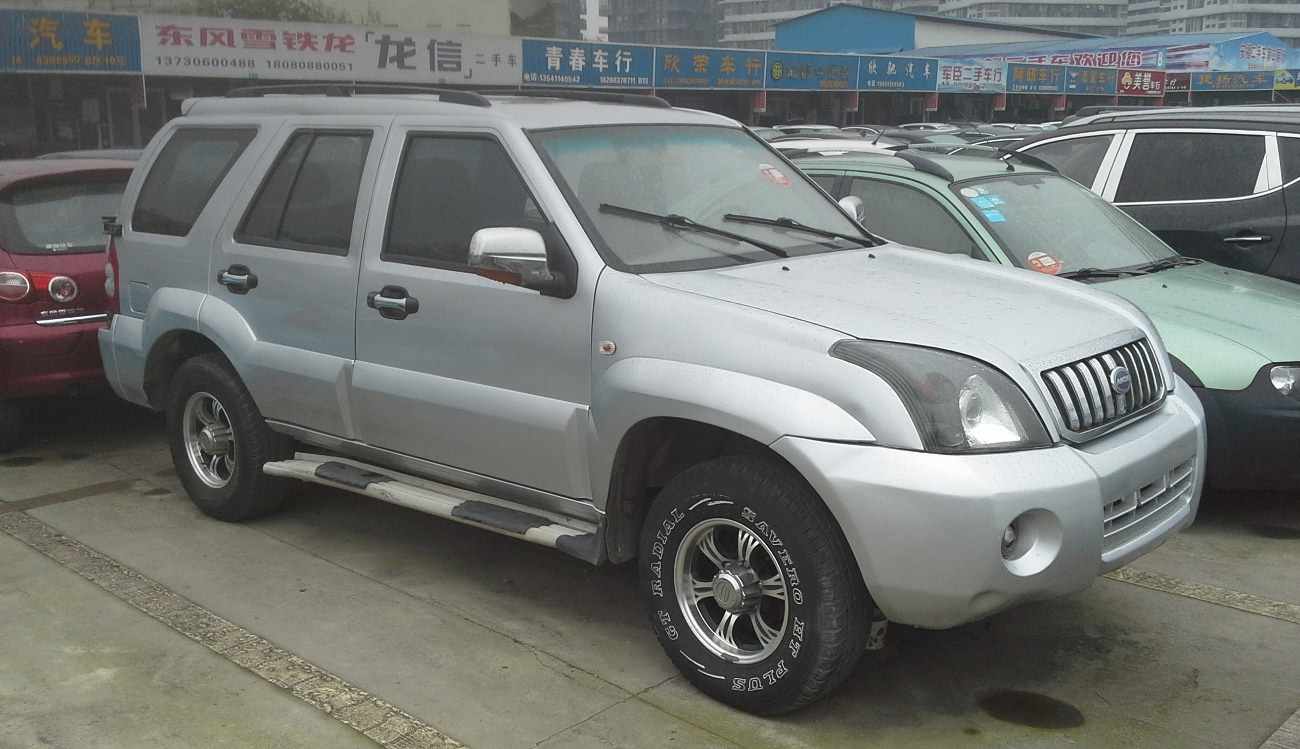 Anchi MC6460 photographed in Chengdu, Sichuan province, China.